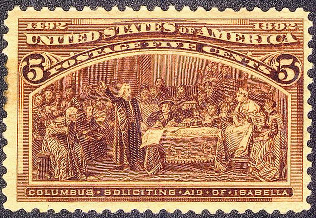 Columbian234-5c.jpg